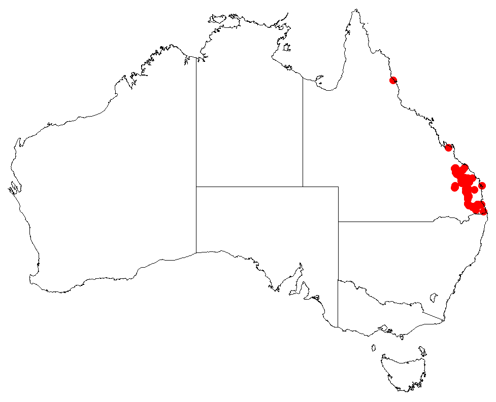 Parsonsia leichhardti Occurrence data for Australia from Australasian Virtual Herbarium downloaded 22 December 2018